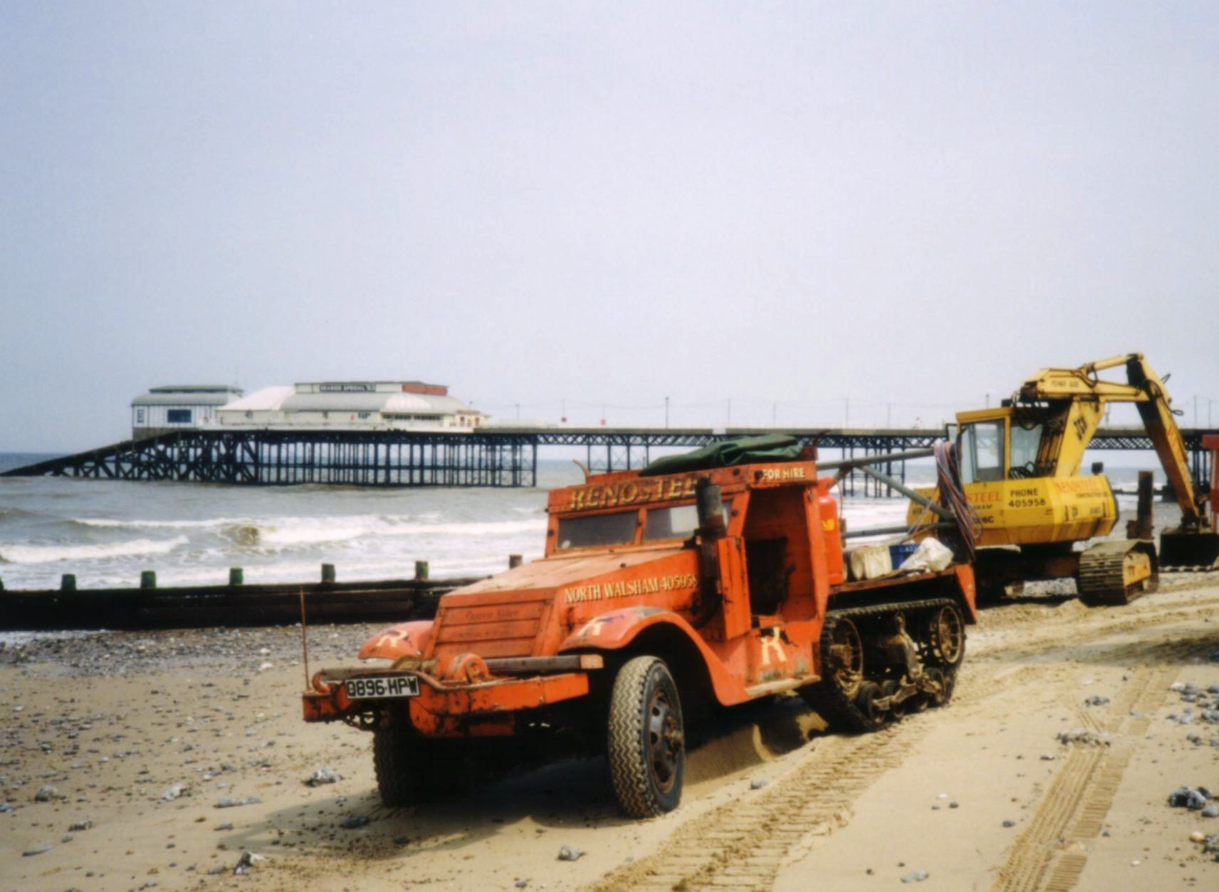 Halftrack on Cromer beach, Norfolk, UK May 1993 - Renosteel Construction Ltd